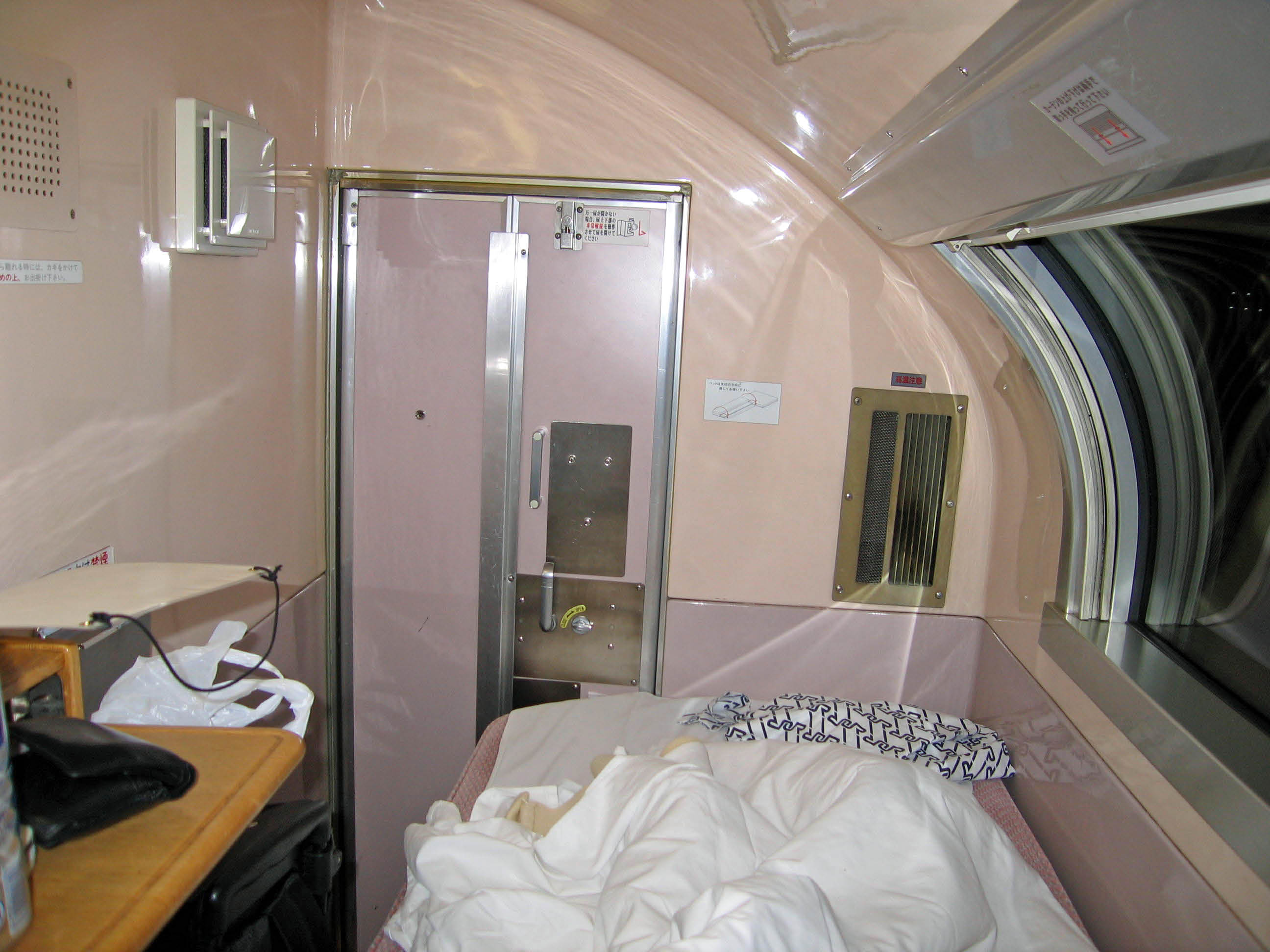 JR East 24 B-Type sleeping car 'Solo'(Operated as Akebono)